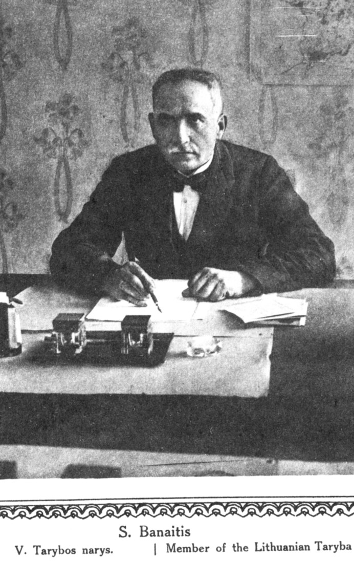 Saliamonas Banaitis, Signator of the Act of Independence of Lithuania